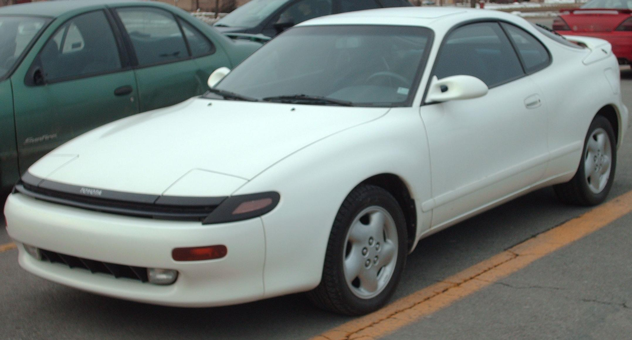 1990 Toyota Celica GT-S (ST184) photographed in Montreal, Quebec, Canada.